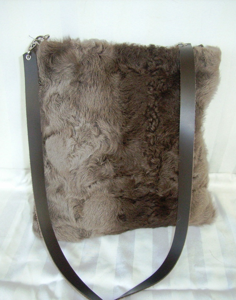 Sarok dyed Indian lamb fur bag